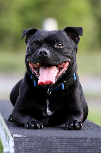 staffordshire bullterrier